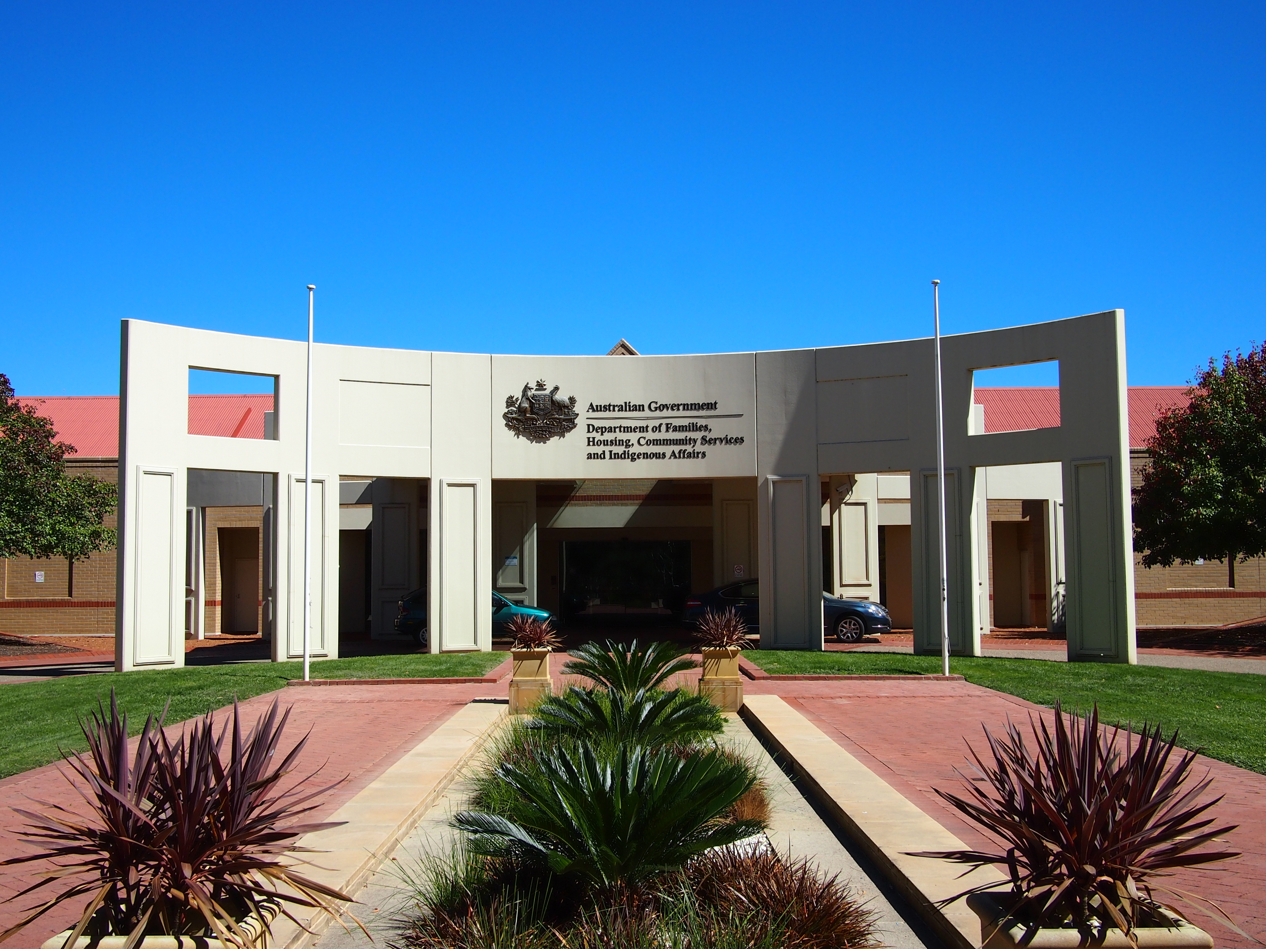 The main entrance to the national headquarters of the Department of Families, Housing, Community Services and Indigenous Affairs (FaHCSIA) at Tuggeranong Office Park